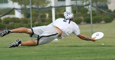 Source: Adam Ginsburg Pictures from an Ultimate Tournament in Dallas